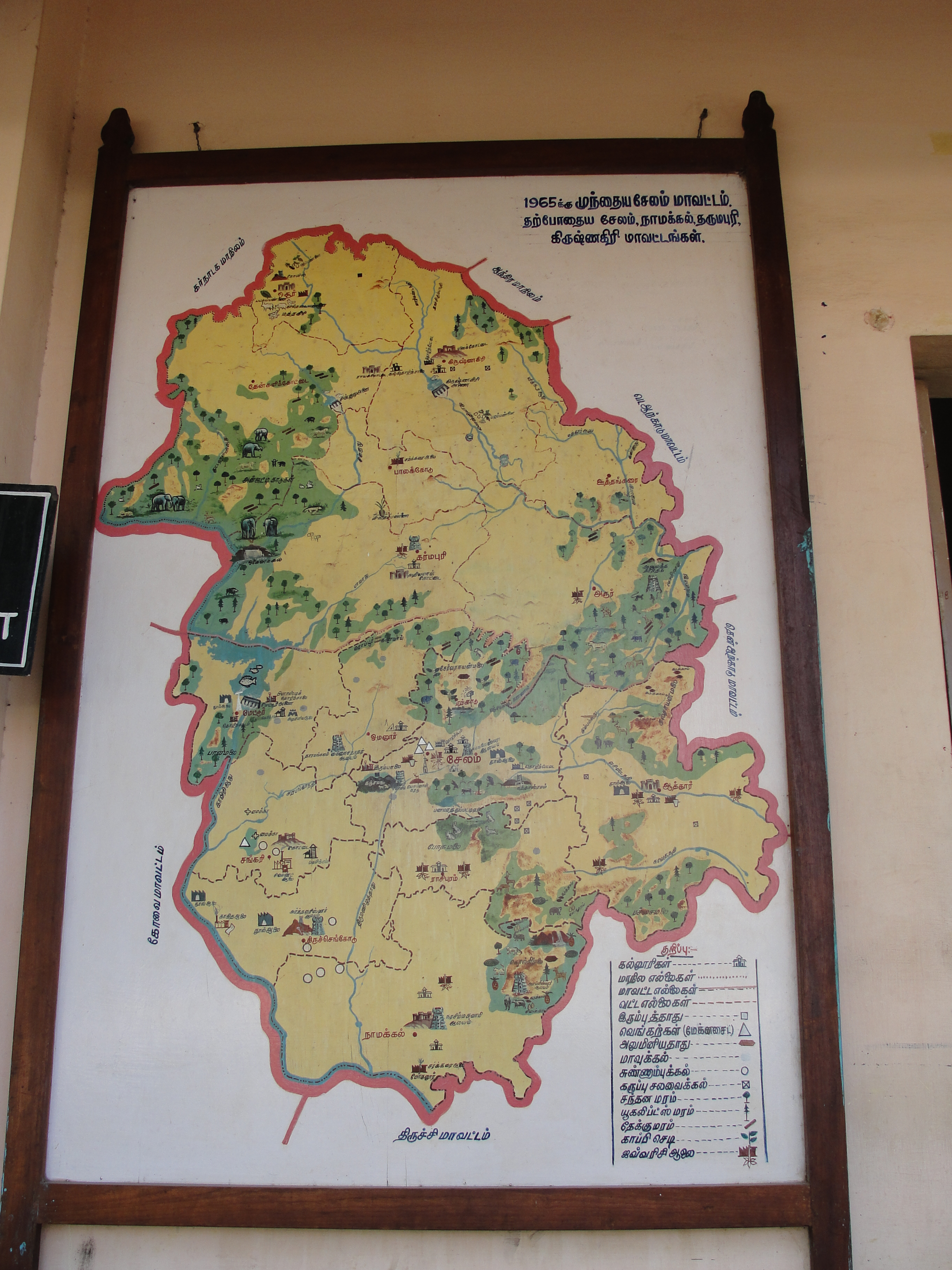 Salem district map prior to 1965.An exhibit in Salem district exhibition, Tamil Nadu, India.